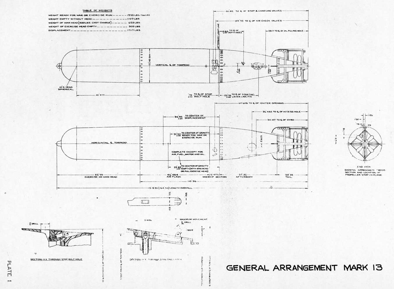 Mark 13 torpedo general arrangement, published in Ordnance Pamphlet 629(A) by the US Navy, July 1942